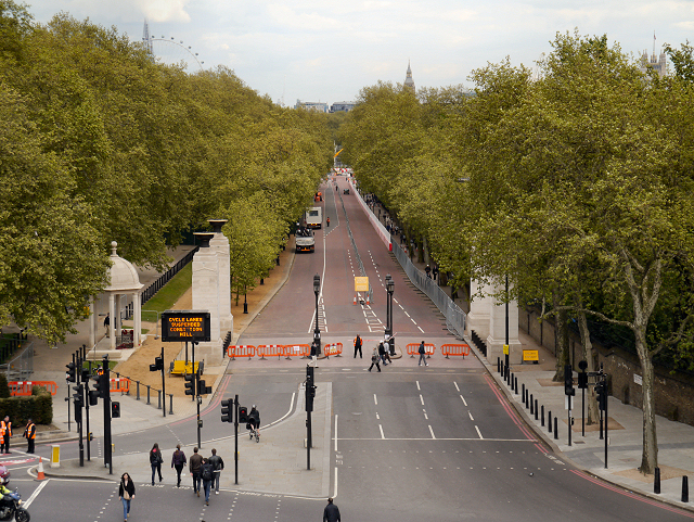 A view up Constitution Hill, from the east terrace of the Wellington Arch